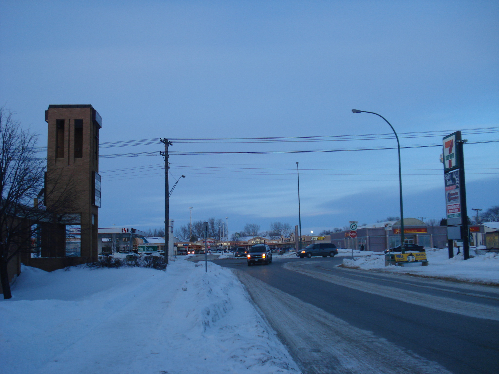 Snow in Winnipeg in Winter-2006. Rouge Rd with Portage Ave.